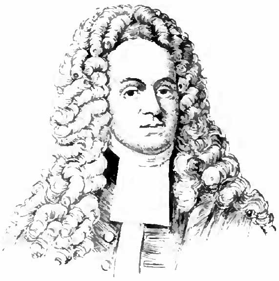 Portrait drawing of Andrew Hamilton, lawyer of U.S. journalist John Peter Zenger during the latter's trial for libel.